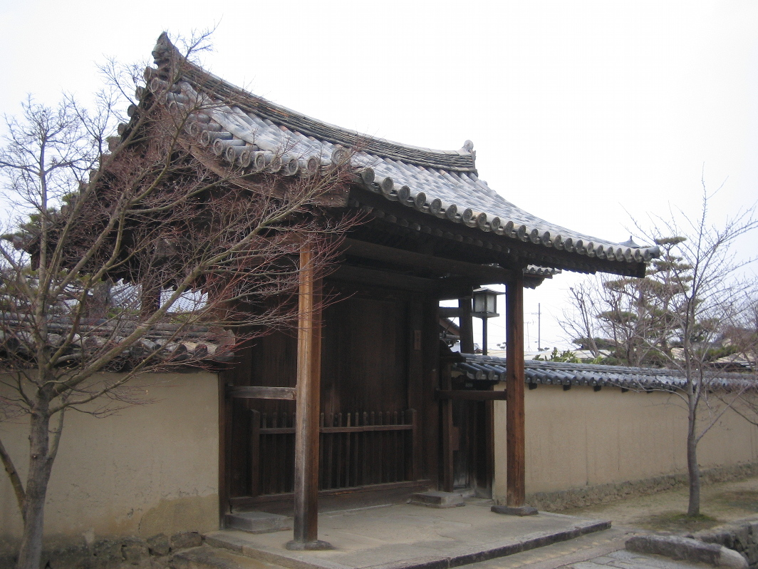 法隆寺東院の四脚門。 the 4-side-leg style gate in Horyu-ji temple.